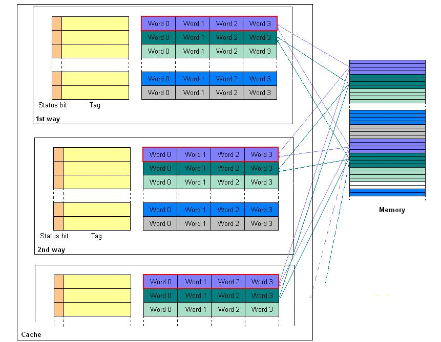 Cache N-associatif